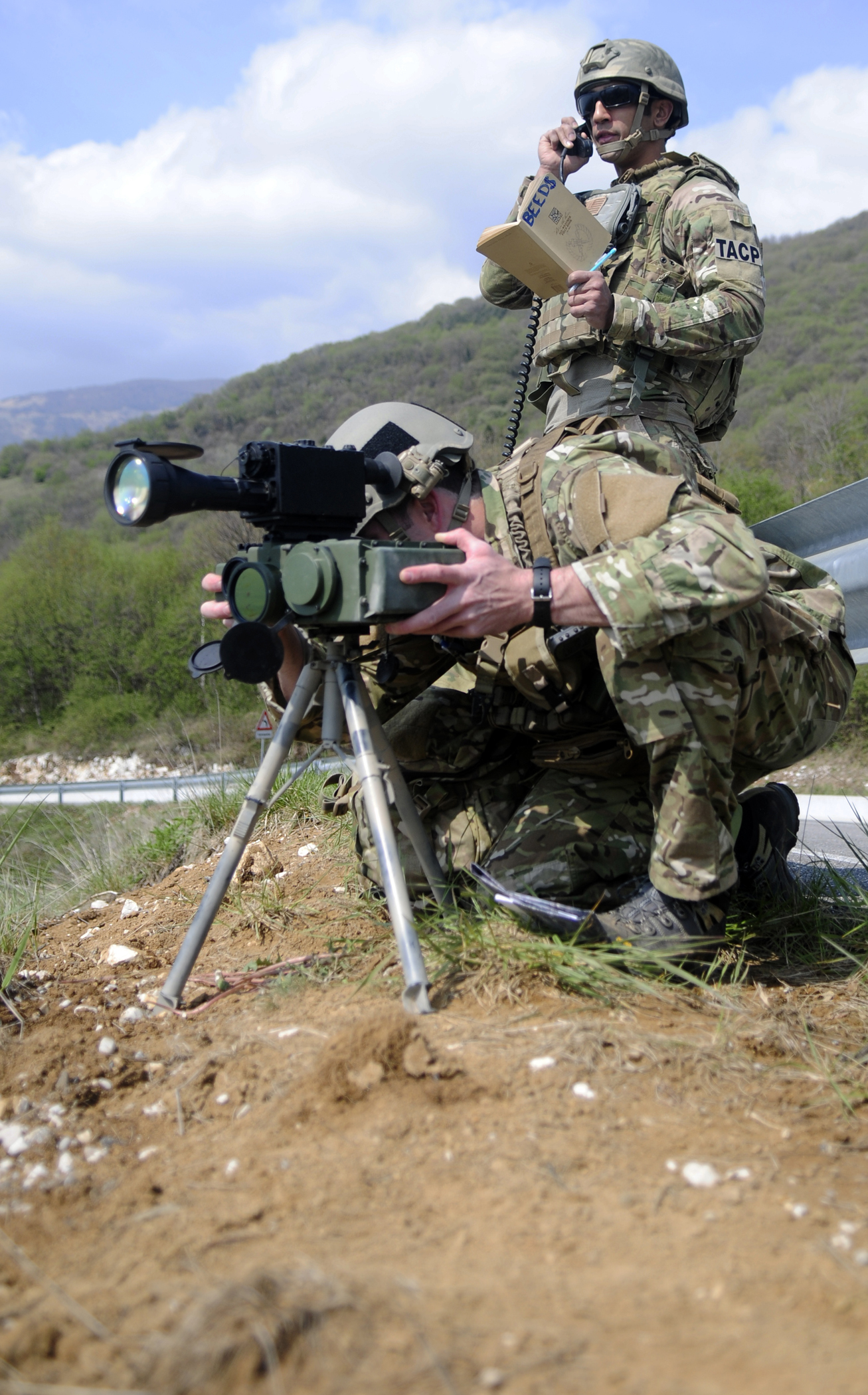 Senior Airman Nathaniel Robie and Airman 1st Class Andrew Beediahram participate in a training mission April 18, 2012, in northern Italy. These routine training missions are designed to help tactical air control party members develop combat-related skills such as map reading, compass usage, enemy target location, and survival, escape and evasion techniques. The Airmen are TACP members assigned to the 8th Air Support Operations Squadron at Aviano Air Base, Italy. (U.S. Air Force photo/Airman 1st Class Briana Jones) Share on facebook Share on twitter Share on email Share on print More Sharing Services 0 Target acquired Senior Airman Nathaniel Robie and Airman 1st Class Andrew Beediahram participate in a training mission April 18, 2012, in northern Italy. These routine training missions are designed to help tactical air control party members develop combat-related skills such as map reading, compass usage, enemy target location, and survival, escape and evasion techniques. The Airmen are TACP members assigned to the 8th Air Support Operations Squadron at Aviano Air Base, Italy. (U.S. Air Force photo/Airman 1st Class Briana Jones)